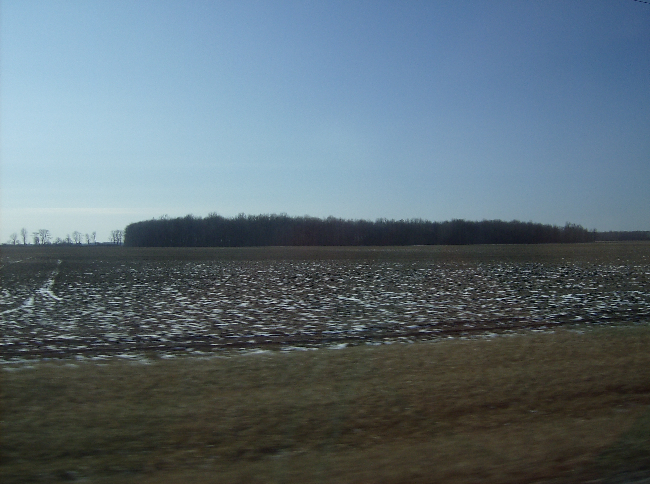 Farmland in far western Pleasant Township, Van Wert County, Ohio, United States. Picture taken southward from U.S. Route 224.